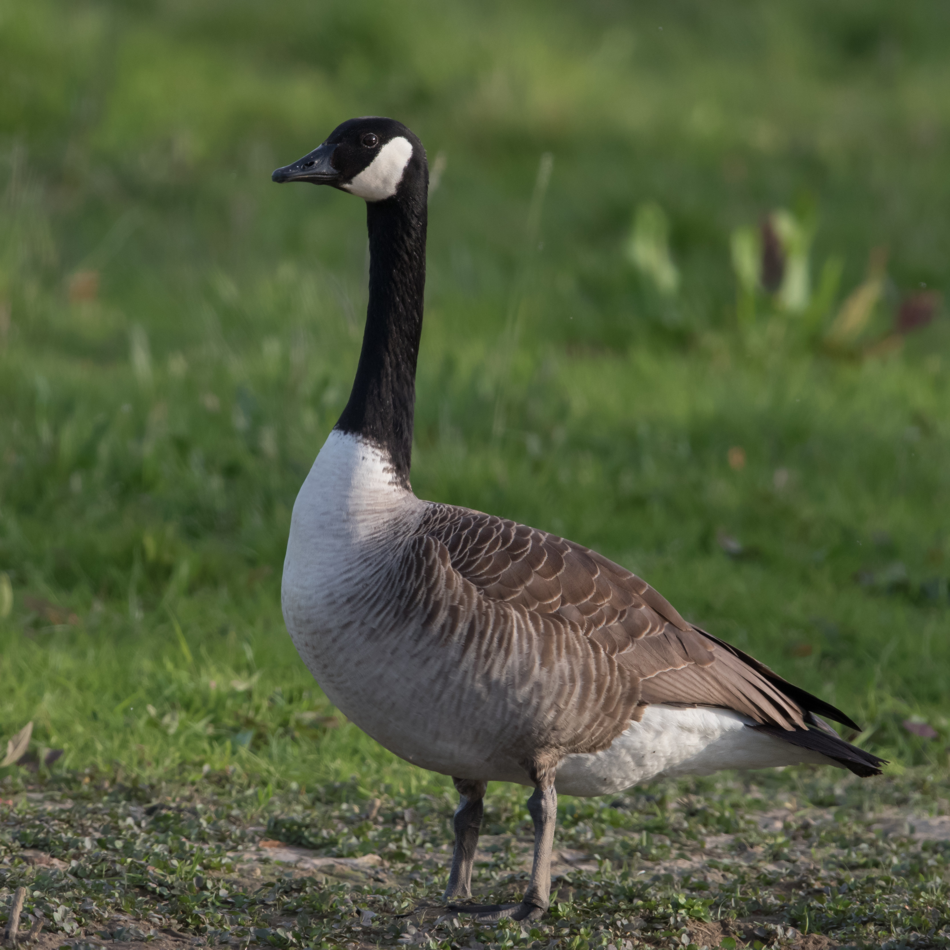 Canada goose